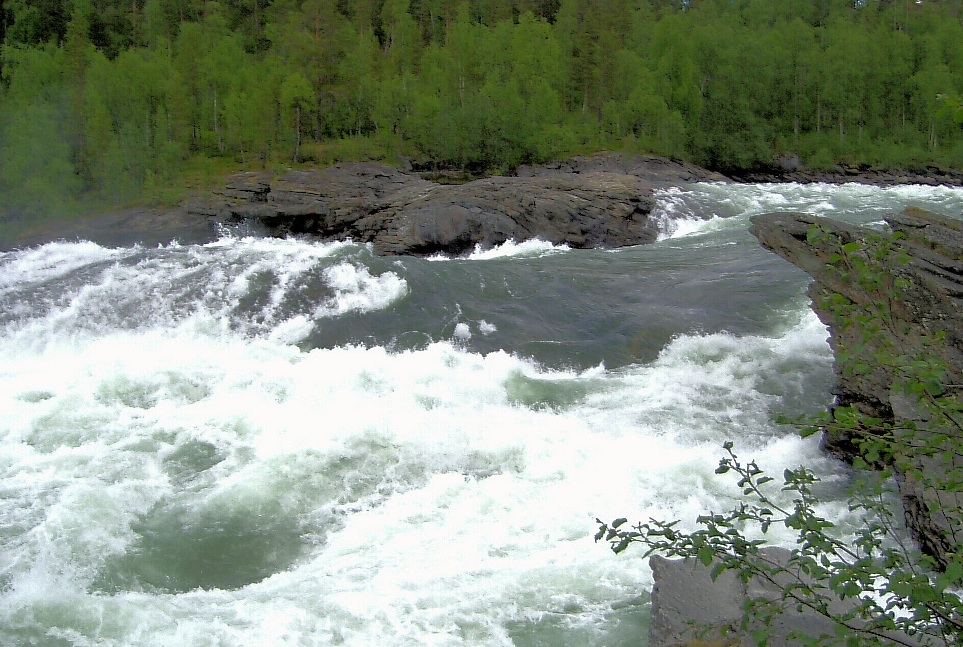 Målselvfossen, commune Målselv, Troms, Norway